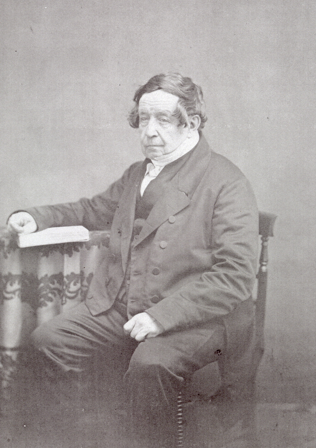 Photograph of bulkeley Bandinel, died 1861, Bodley's Librarian